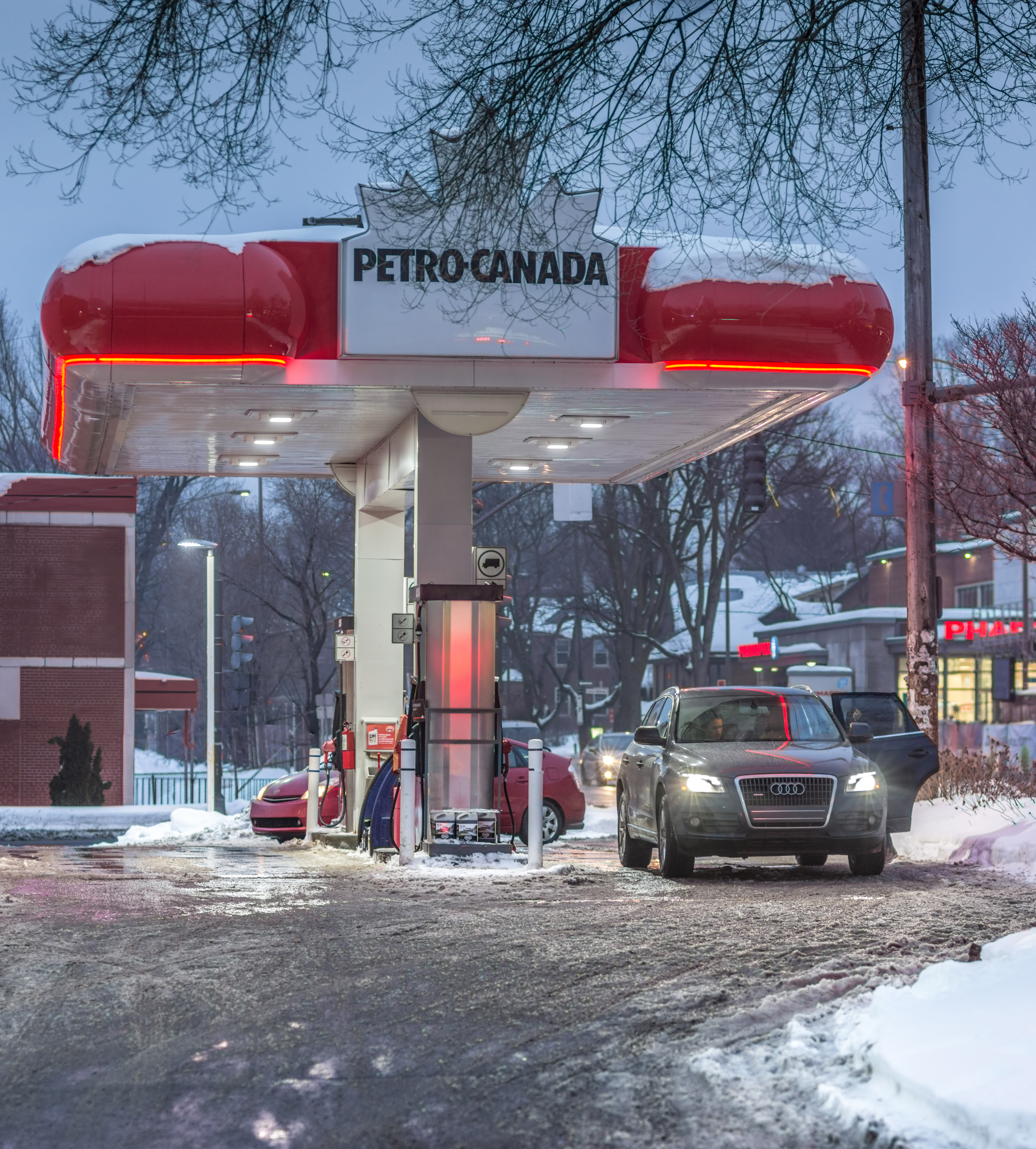 Petro Canada Service Station, Avenue Belvédère, Québec, QC